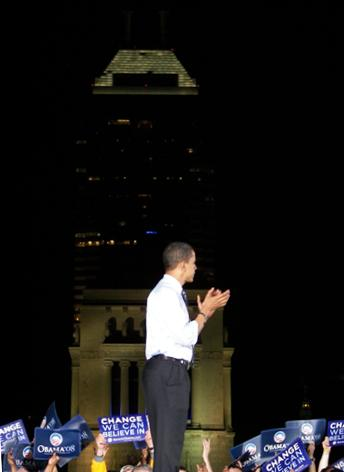 Barack Obama campaigning in Indianapolis on May 5, 2008 before the Democratic primary. Both the Chase Tower and Indiana War Memorial are seen in the background.